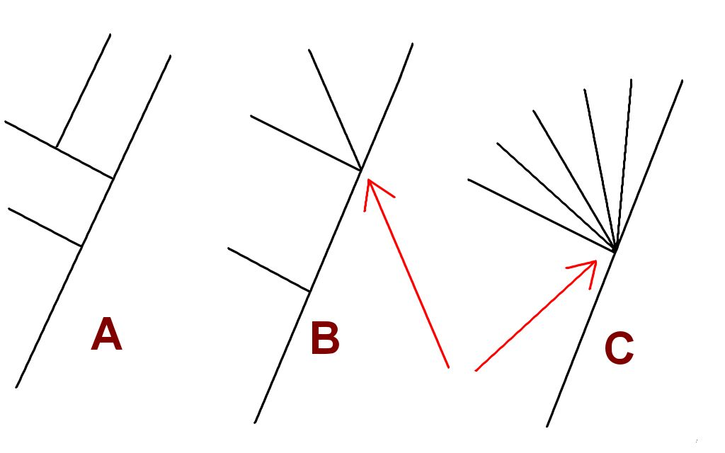 Cladograms showing different types of polytomies: A - fully resolved (only dichotomies), B - partially resolved, C - star tree. The polytomies are highlighted with the red arrows.